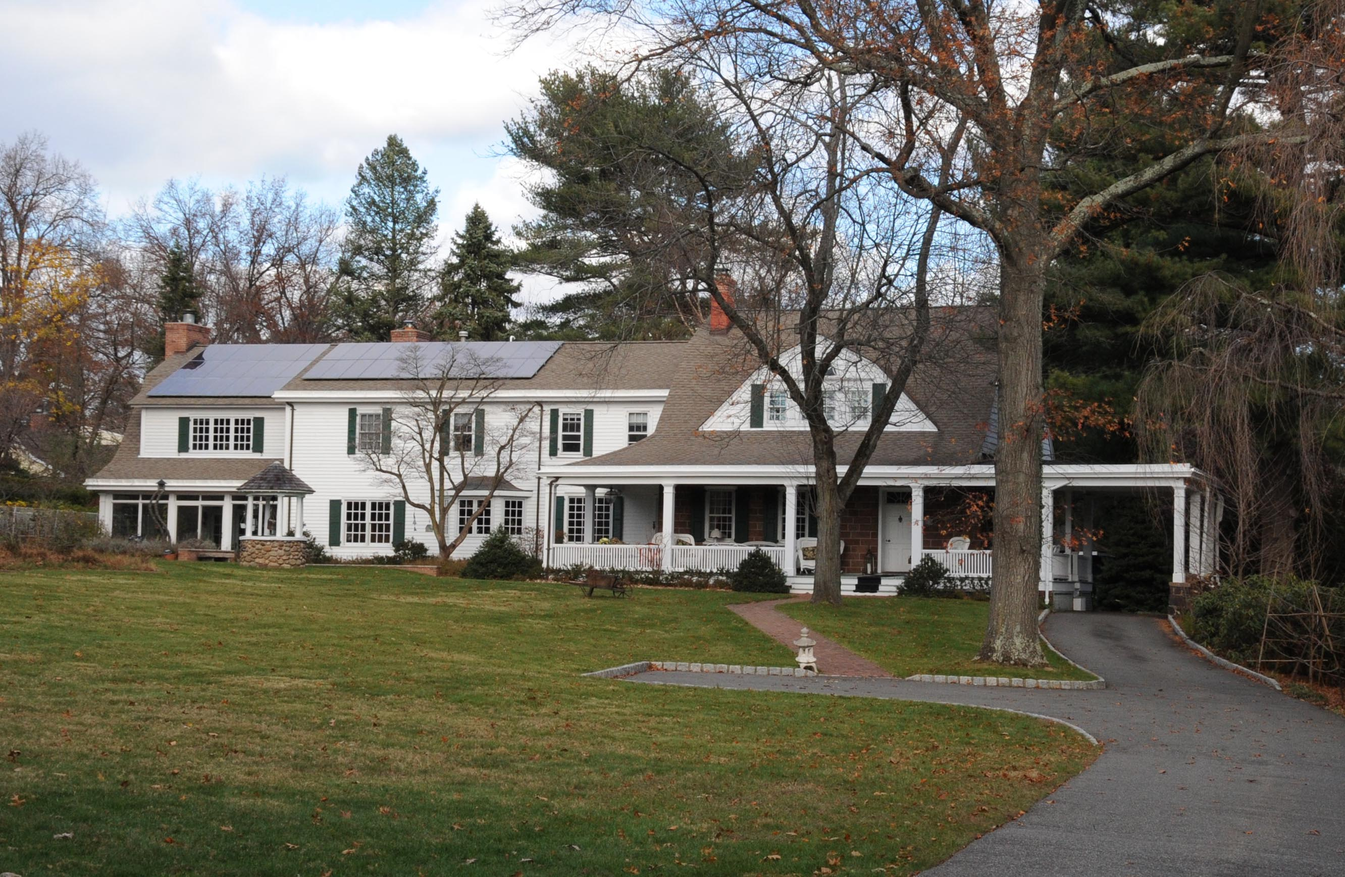 AKA ZABRISKE-CHRISTIE HOUSE; BUILT IN 1818; LATER OWNED BY HIS SON WHO SOLD IT TO HIS GRANDSON JOHN H.. CHRISTIE IN 1894. IT WAS SOLD OUT OF THE FAMILY IN 1936